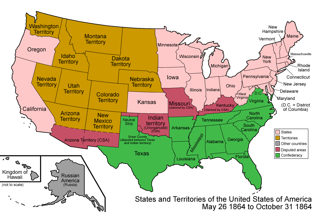 Map of the states and territories of the United States as it was from May 1864 to October 1864. On May 26 1864, Montana Territory was split from Idaho Territory, which further lost some land to Dakota Territory. On October 31 1864, Nevada Territory was admitted as the state of Nevada.